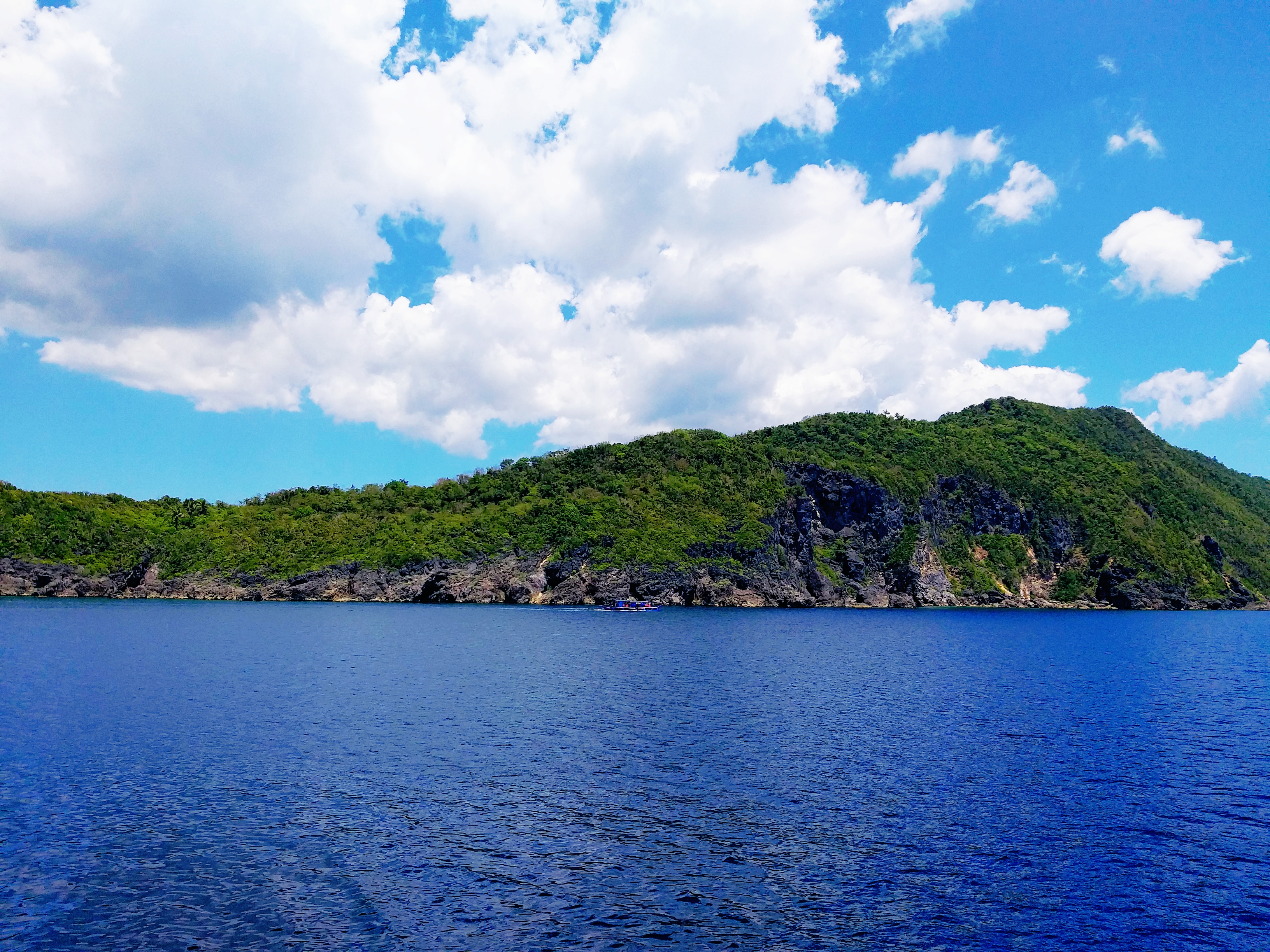 One of the three major islands in Masate, Ticao island is separated from the mainland Bicol Peninsula. Since it is one of the rare islands and not known to tourists, it has a peaceful ambiance and a nature-whelming atmosphere that visitors embrace. It is a underrated island in Philippines as it is a place for diving. There are more islands in the Philippines that are worth the visit and deserves to be recognized in tourism. Ticao Island is one of them.